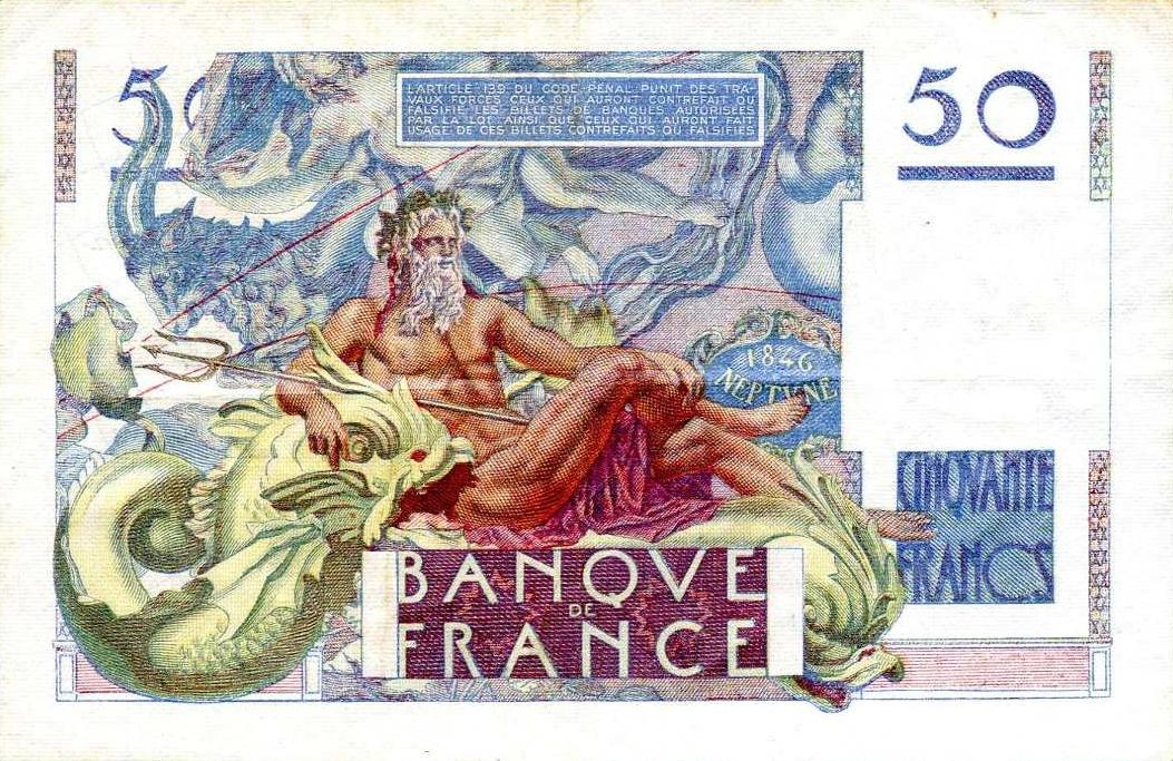 France 50 francs Le Verrier 02